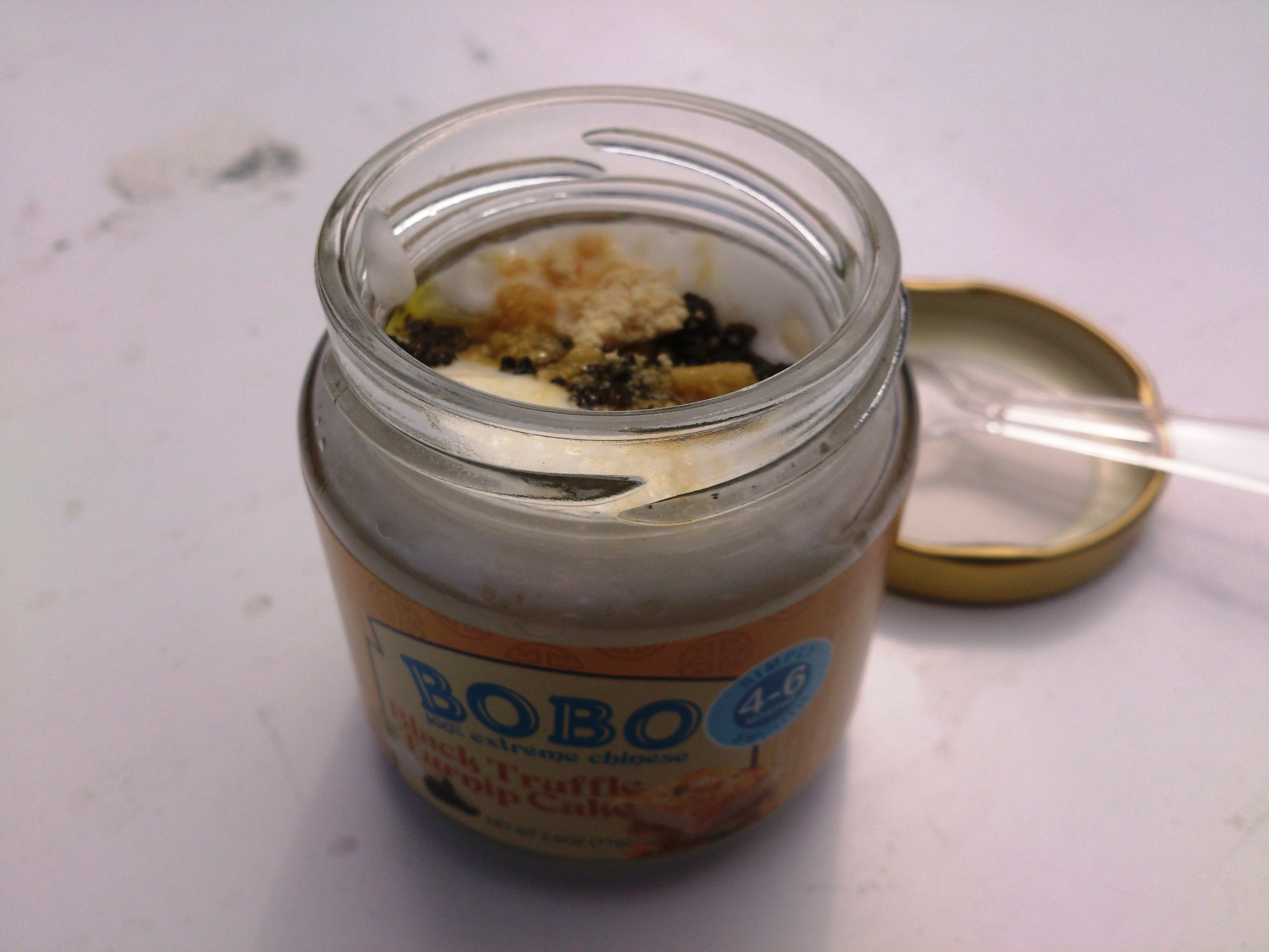 Black Truffle Turnip Cake as Molecular Gastronomy Cuisine